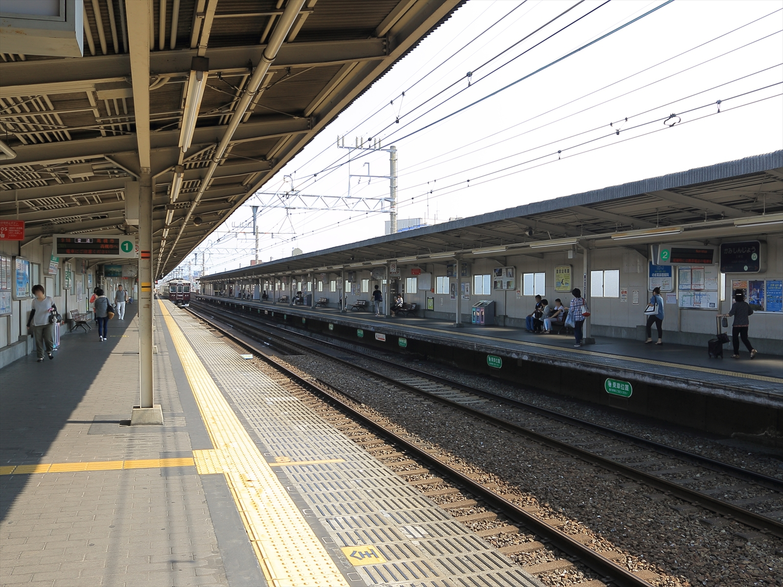 Platform from Kami-Shinjō Station.